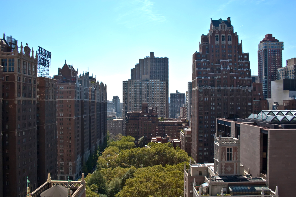 Tudor City